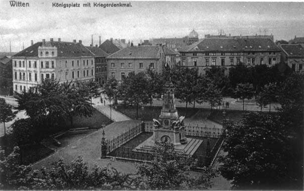 Postcard of Königsplatz/Germaniadenkmal, now Karl-Marx-Platz in Witten, Germany